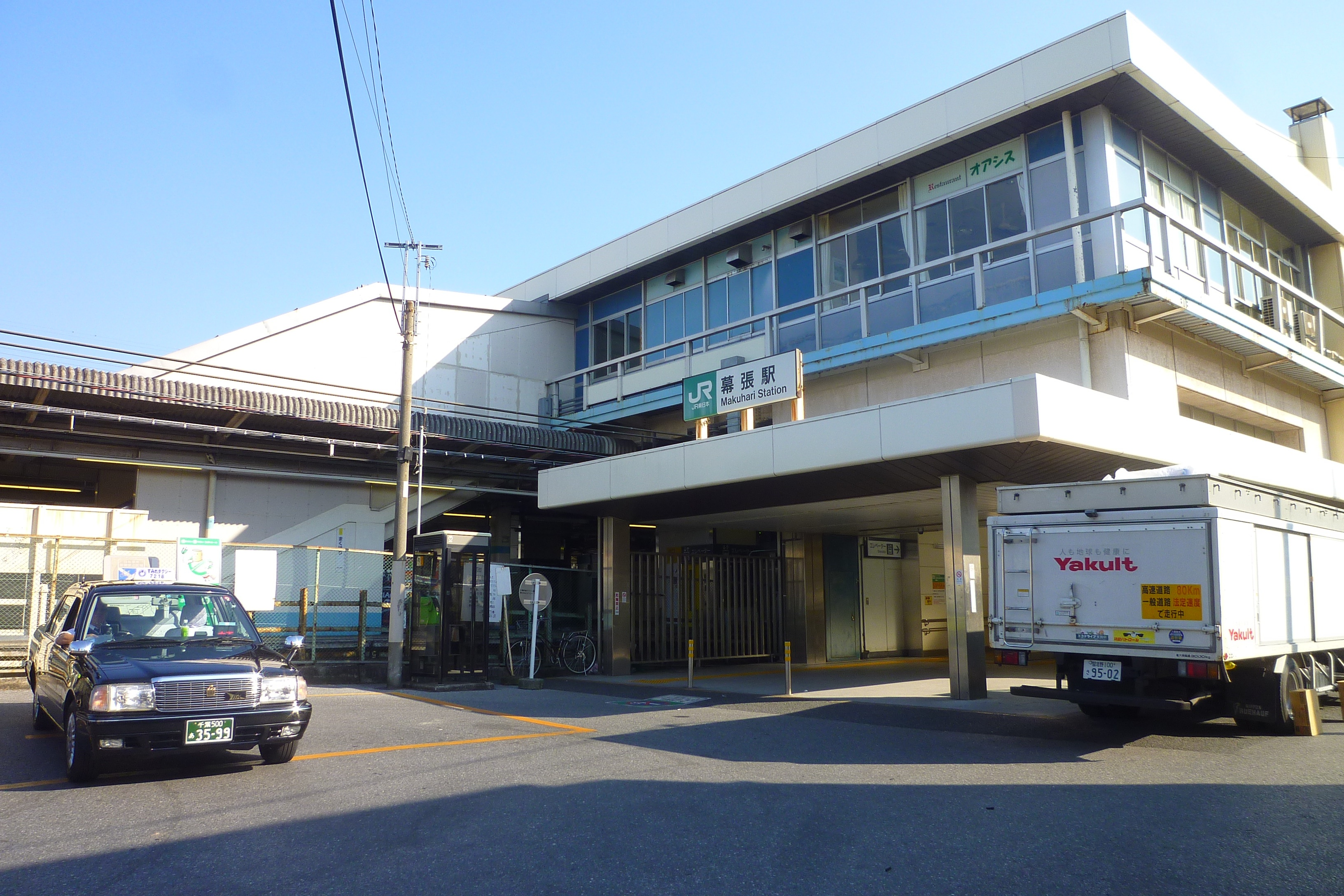 The south entrance of Makuhari Station on the Chuo-Sobu Line